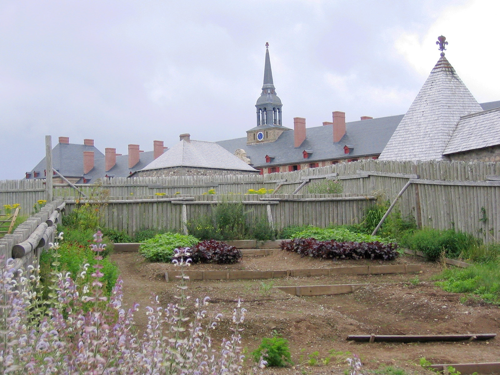 Fortress of Louisbourg, Cape Breton Island, Nova Scotia